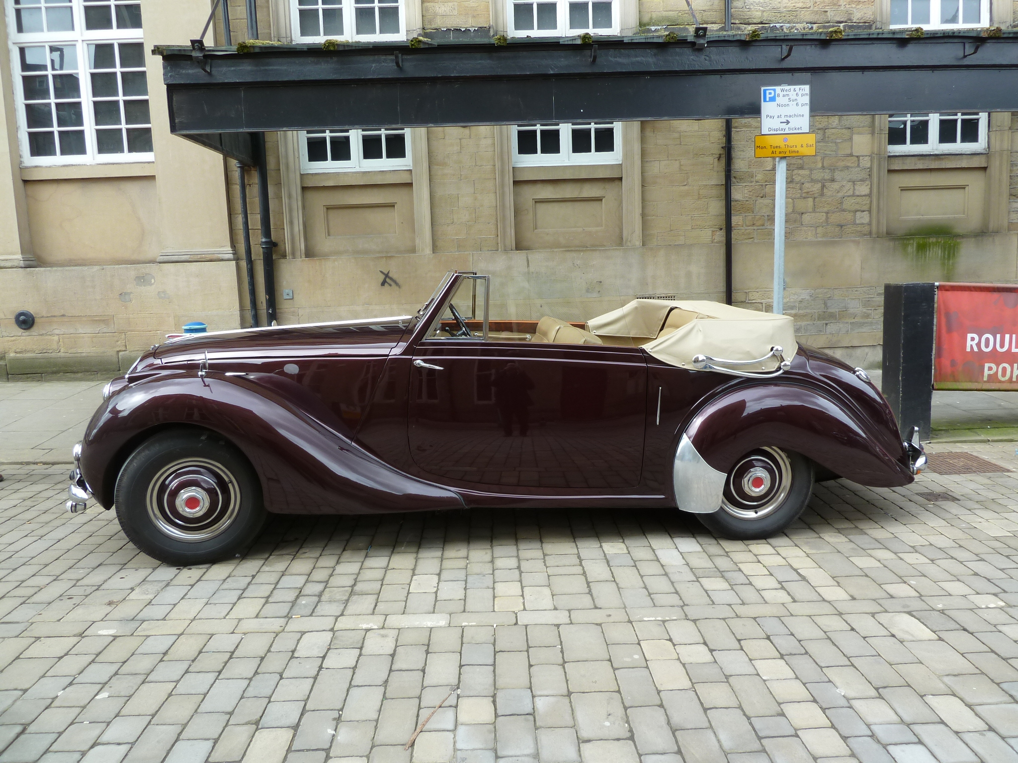 1953 Lagonda 2.6-litre 4 seater drophead coupé by Tickford